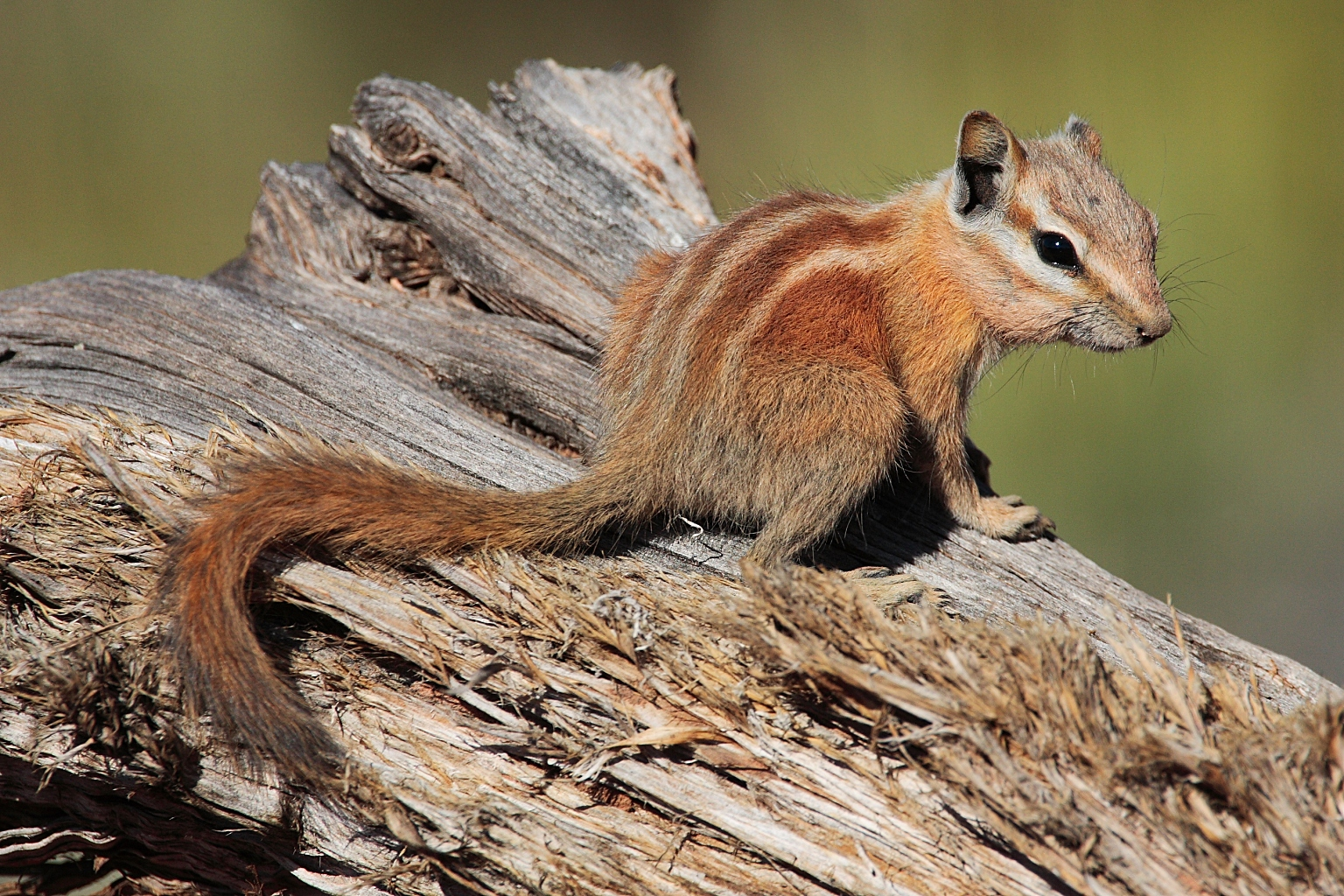 Hopi Chipmunk (Tamias rufus) – Dead Horse State Park, Utah